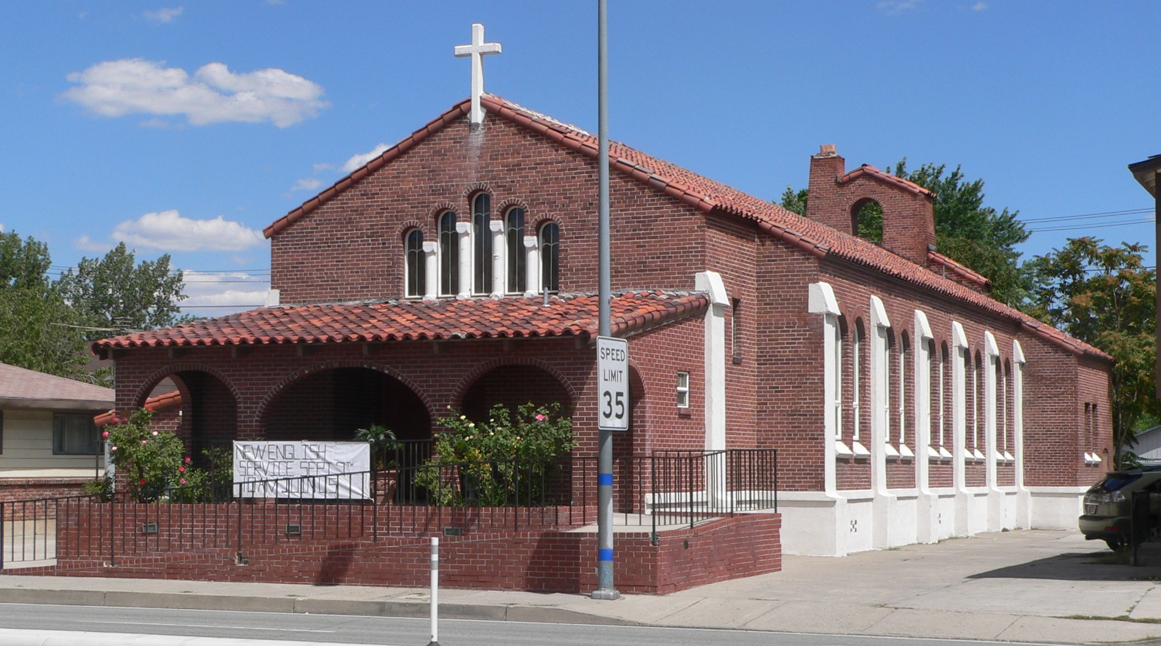 Iglesia Cristiana Monte Sinai, formerly Immaculate Conception Church, located at 528 Pyramid Way in Sparks, Nevada; seen from the southwest.